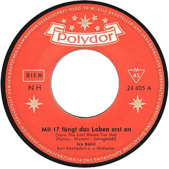 Single Mit 17 fängt das Leben erst an (1961) from Ivo Robic